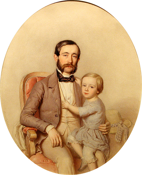 Portrait of a father and his Son